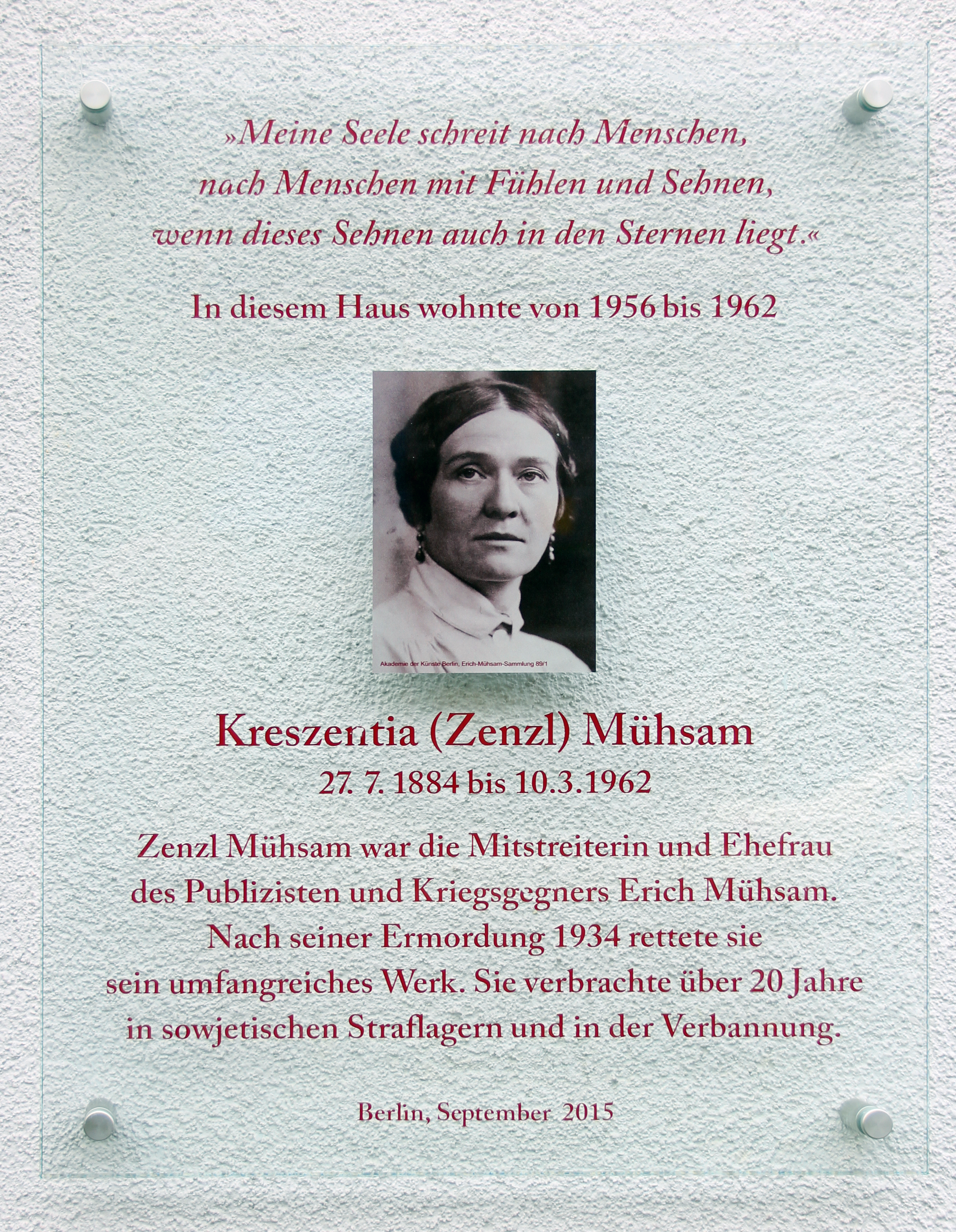 Memorial plaque, Kreszentia Mühsam, Binzstraße 17, Berlin-Pankow, Deutschland